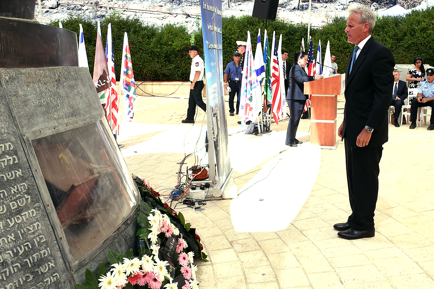 American Embassy Tel Aviv joined Keren Kayemed L'Yisrael and Jewish National Fund-USA in observing the 15th anniversary of the 9/11 terror attacks in the U.S. Over 500 participants gathered for the ceremony at the 9/11 Living Memorial in the Emek Arazim Valley near Jerusalem. Israeli government officials, over 30 foreign diplomats, members of bereaved families, the U.S. Police Unity Tour delegation, Israel Firefighters and Rescue, Israel National Police and representatives of first-responder organizations all attended. Addressing his remarks particularly to the 150-member Young Judea group who also attended, U.S. Ambassador Daniel Shapiro said, "This year, our remembrances mark the transition of 9/11 from living memory to history. A young person on the cusp of adulthood today has no personal memory of 9/11. The obligation falls on us to teach them, and on them to learn -- both about the great sadness, pain, and loss, but also the inspiring stories of heroism, courage and generosity around those events." Jerusalem